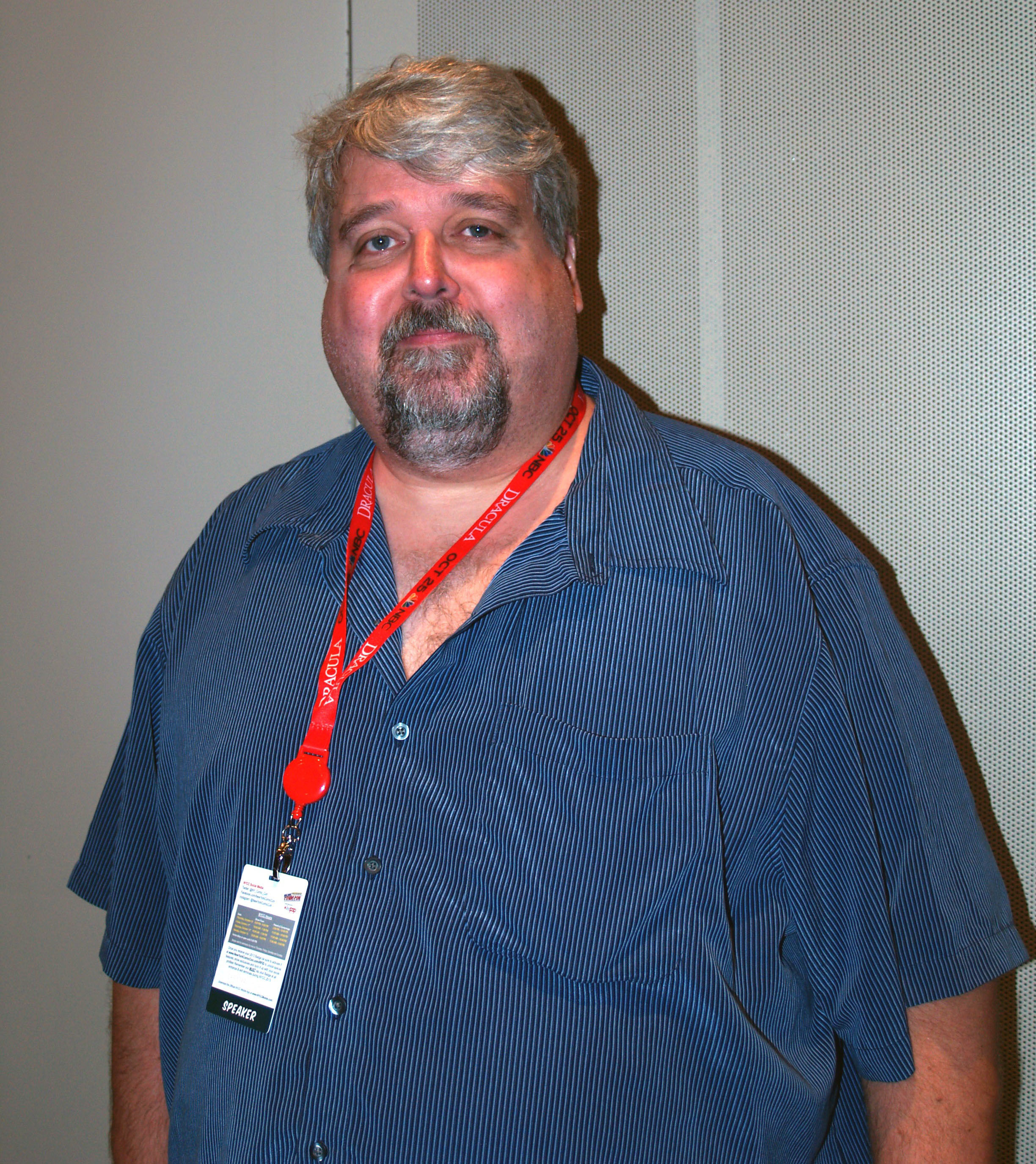 IDW Publishing Special Projects Editor Scott Dunbier, at the Saturday IDW Publishing panel, at the Jacob K. Javits Convention Center in Manhattan, on Saturday October 12, 2013, Day 3 of the 2013 New York Comic Con. This photo was created by Luigi Novi. It is not in the public domain, and use of this file outside of the licensing terms is a copyright violation.